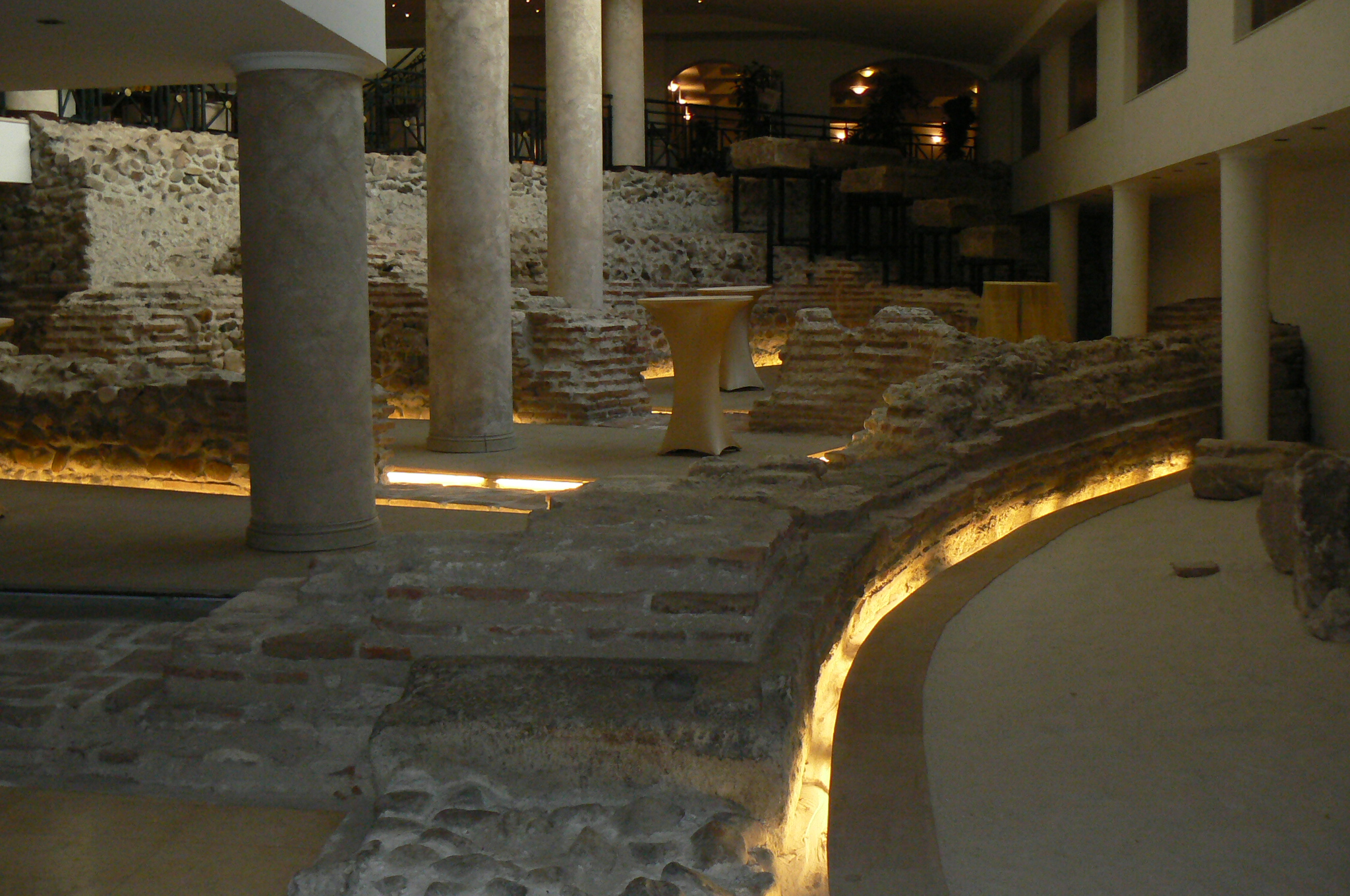 Remnants of the Serdica amphiteatre from the Roman times, discovered in the centre of Bulgarian capital Sofia in 2004-2006, during excavations works preceding the construction of a private hotel. The construction works were not timely stopped and currently a part of these remnants can be seen in the basement of the hotel. Public access is granted from 10 to 16 o'clock every day except Monday.